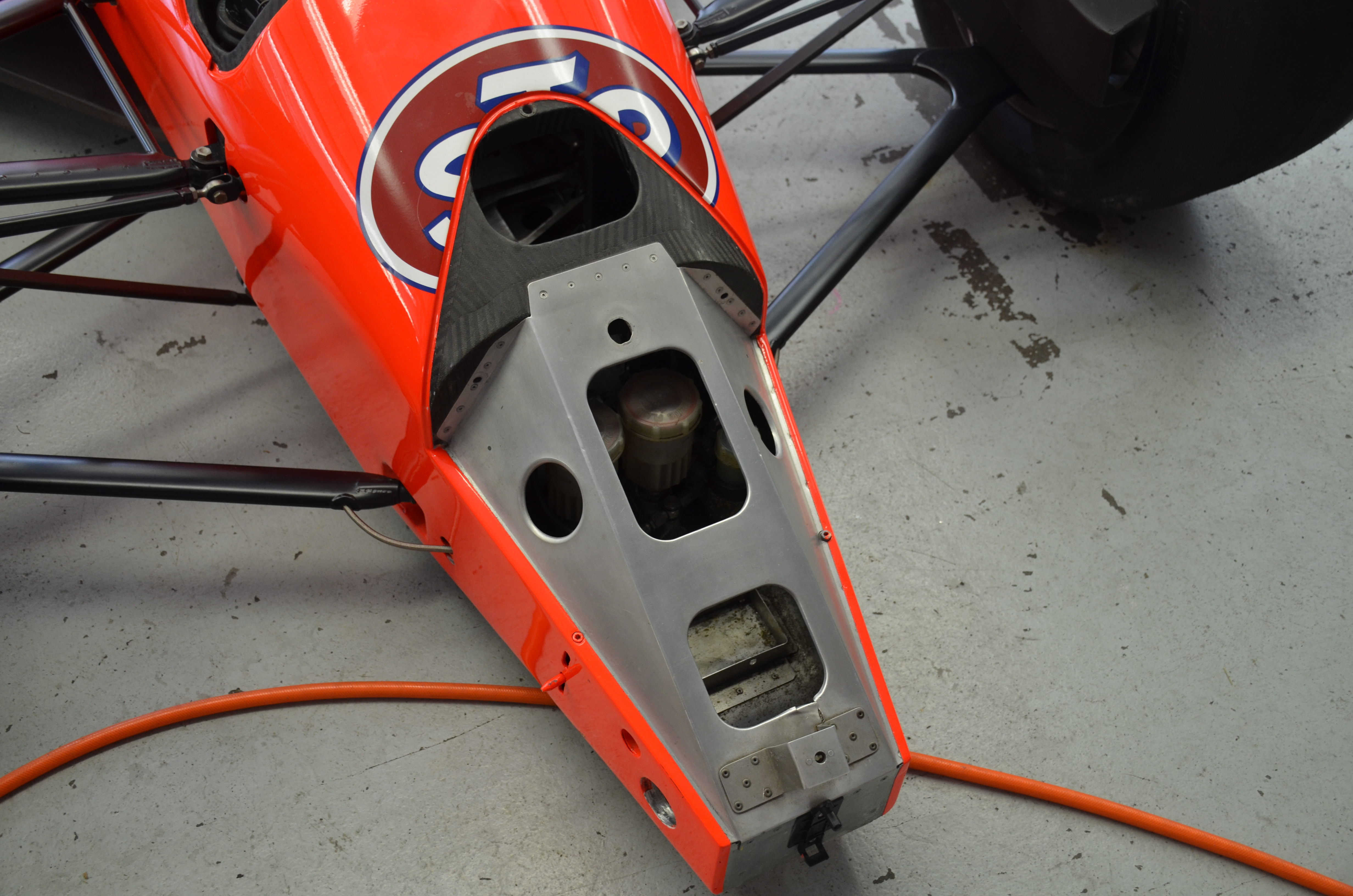 Replica (recreation or restoration) of Roberto Guerrero's 1987 March/Cosworth Indy car at SVRA Brickyard June 2016. Showing nosecone area of the car.